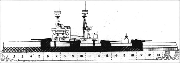 Section view of dreadnought HMS Bellerophon showing armour scheme